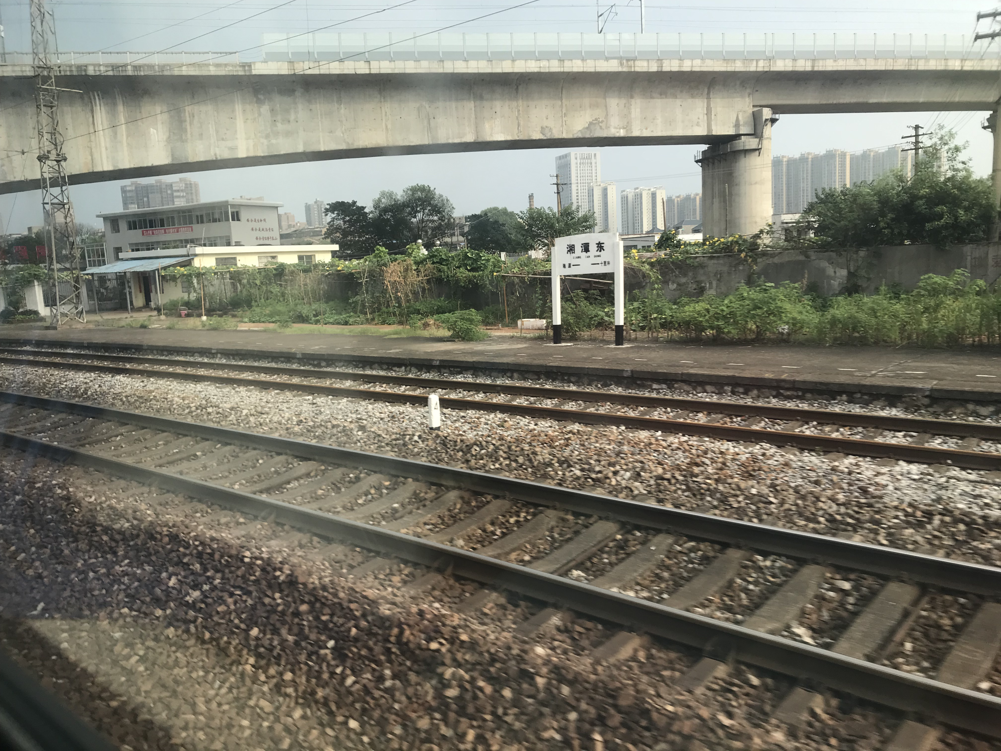 201908 Nameboard of Xiangtandong Station, the passenger yard is under the Changsha-Zhuzhou-Xiangtan Intercity Railway